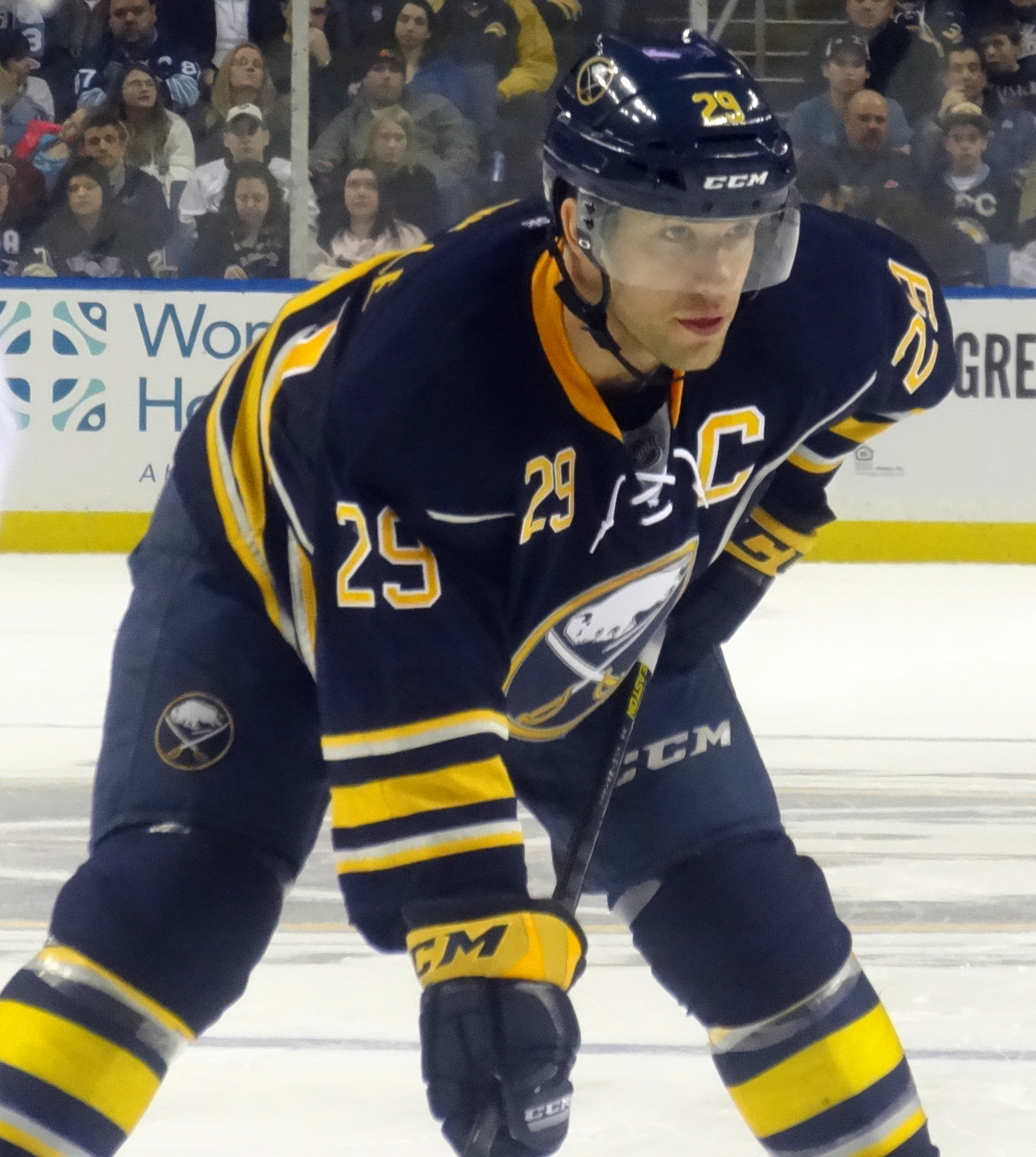 Buffalo Sabres forward Jason Pominville skates against the Pittsburgh Penguins, February 17, 2013 at First Niagara Center in Buffalo, NY.